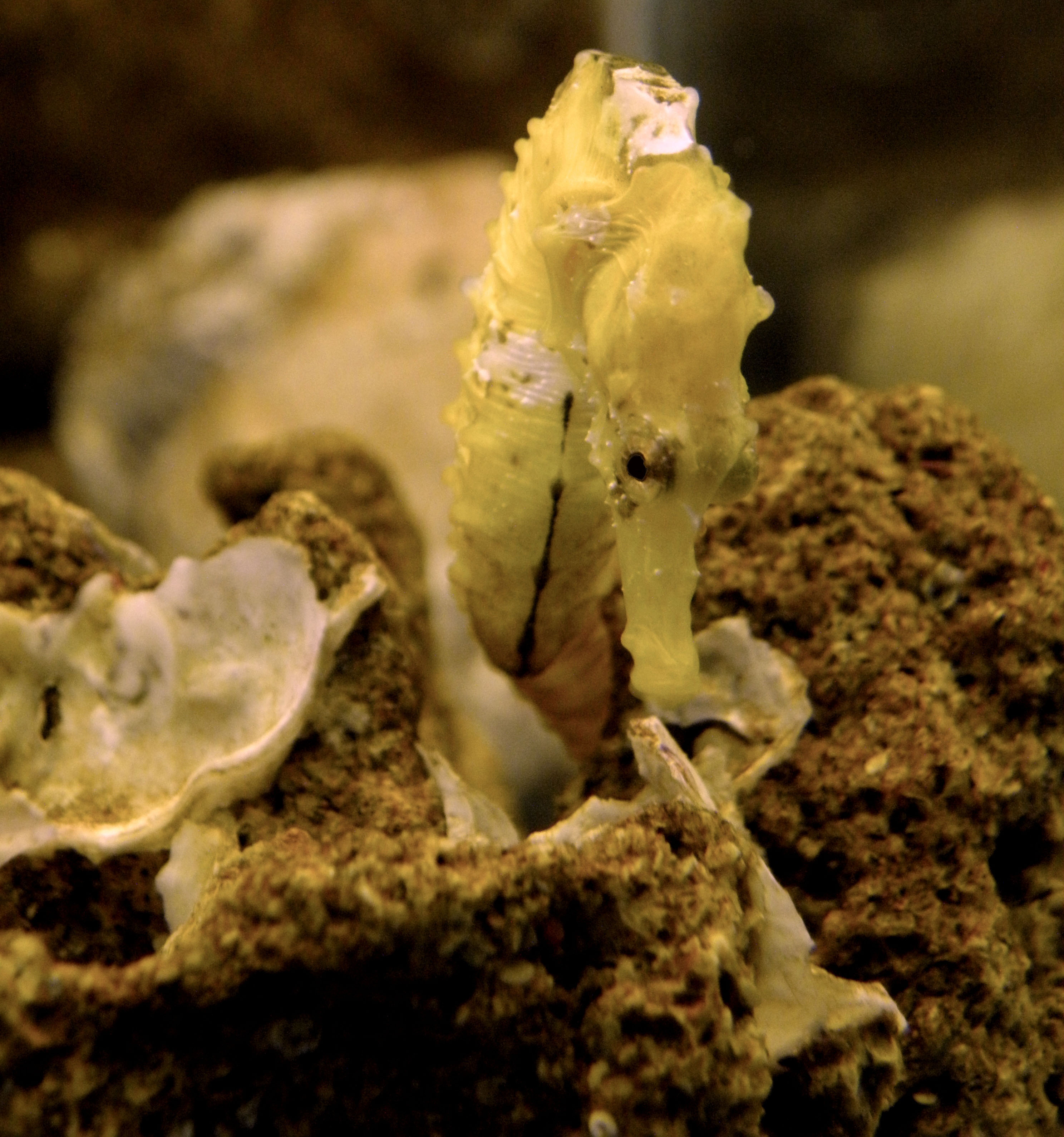 Patagonian Seahorse (Hippocampus patagonicus).